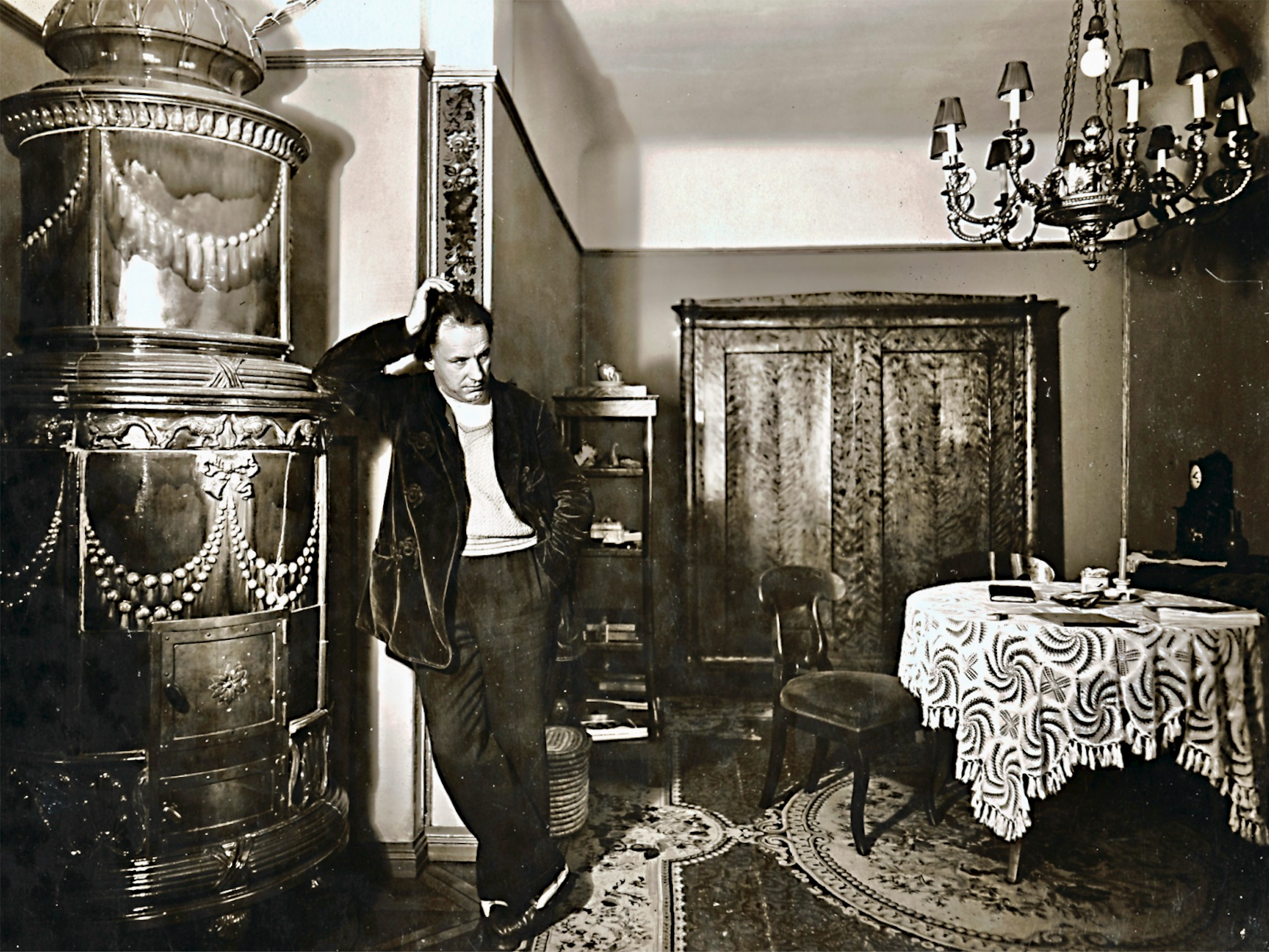 German film maker Arnold Fanck (1889–1974) in the living-room of his apartment in Berlin-Wilmersdorf, Kaiserallee 33/34 (today: Bundesallee, building destroyed) where he lived between 1929 and 1933